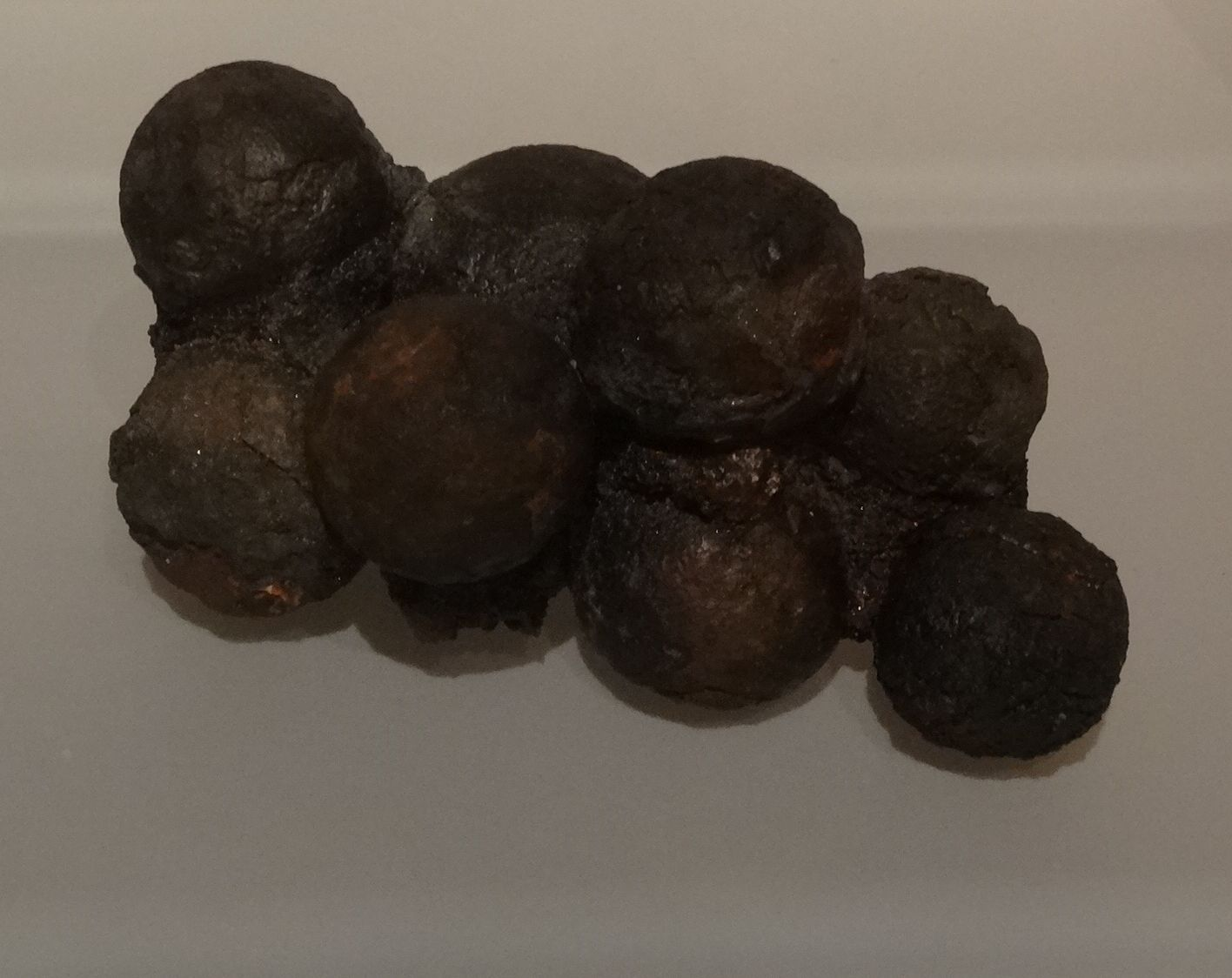 Grapeshot with the enclosing canister decomposed. Archeological find from the frigate Fredricus, sunk 1719, in Marstrand harbour, Sweden. On display at Bohusläns museum, Uddevalla.